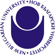 logo of the New Bulgarian University